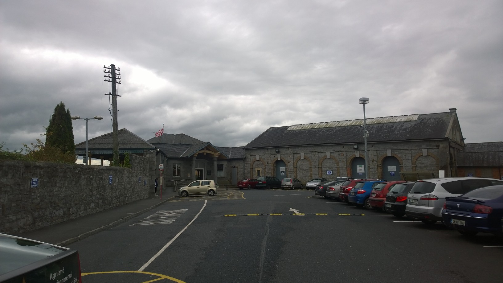 A view of Mullingar railway station and carpark, September 2015